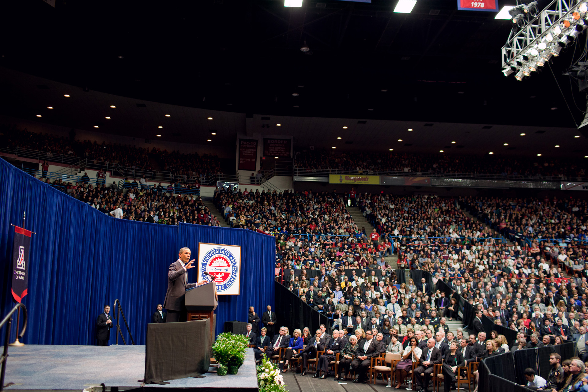 U.S. President Barack Obama speaks in the McKale Center during a memorial event dedicated to the victims of the 2011 Tucson shooting.